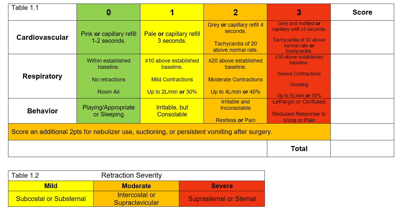 PEWS System w/ Color